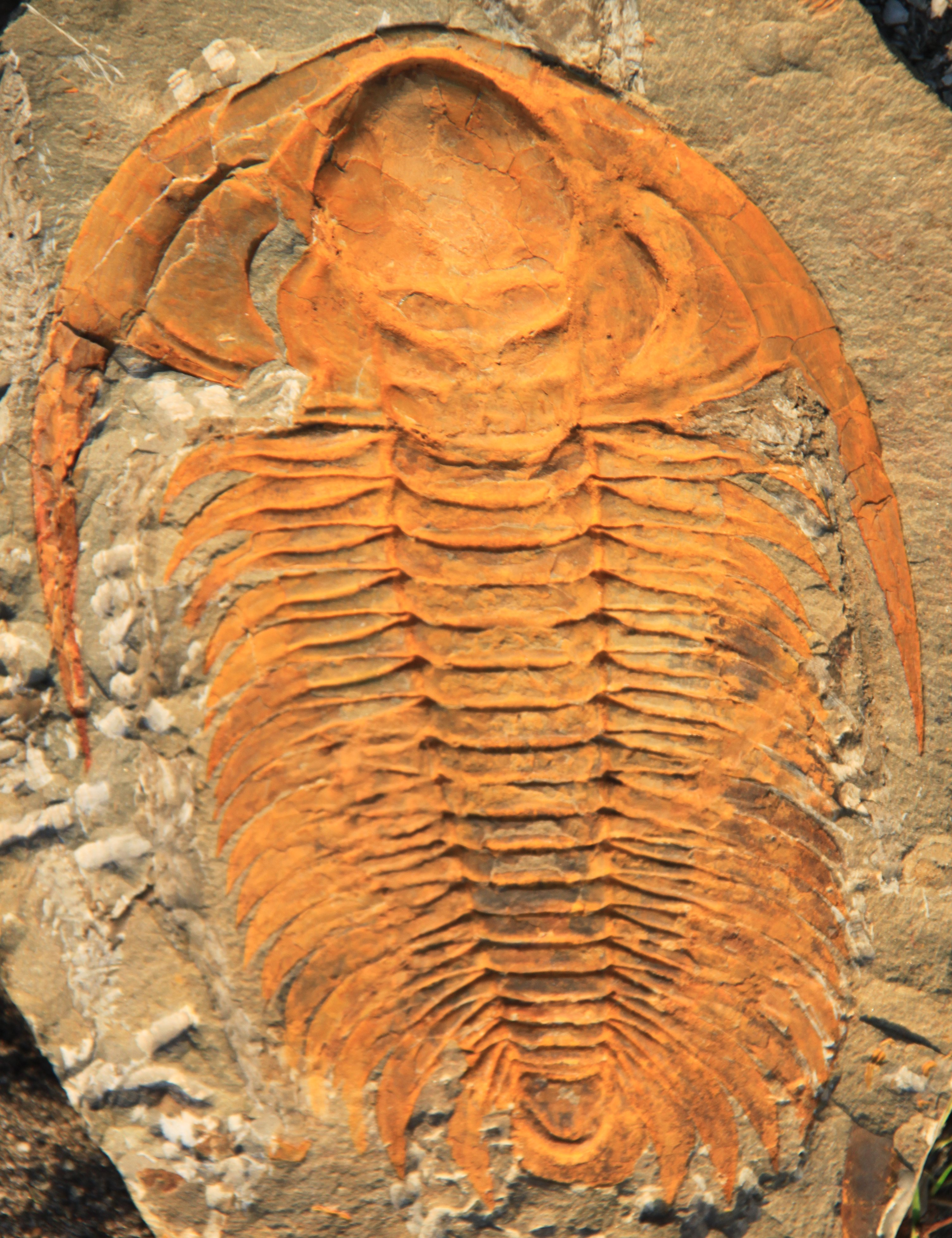 The extinct trilobite Paradoxides subgenus Eccaparadoxides sp., Order Redlichiida, Family Paradoxididae, 163mm, from Morocco, Middle Cambrian